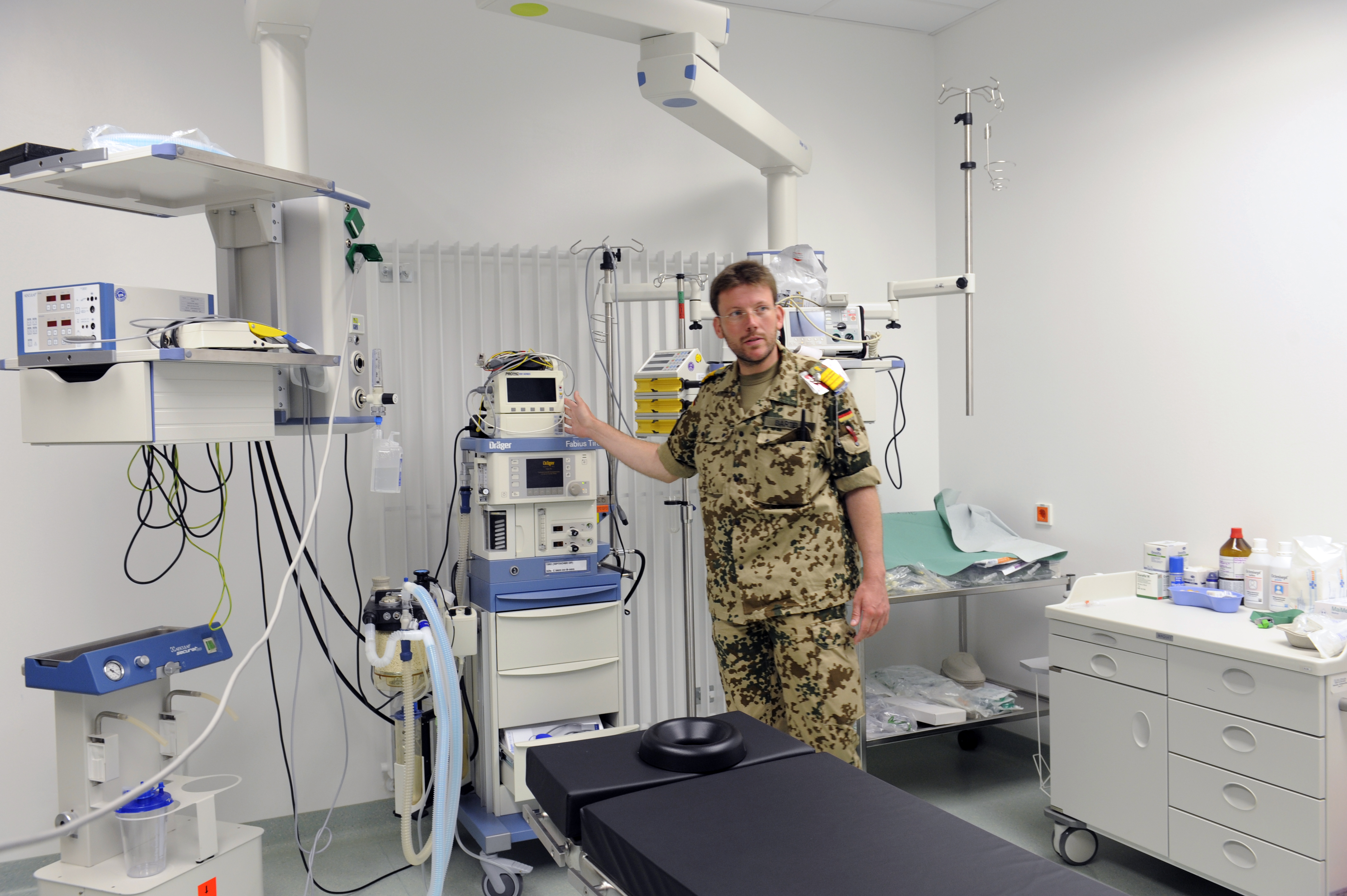 German military Lt. Col Frank Barteldt, commander of the medical treatment facility at Camp Marmal, Afghanistan, gives the commander of the 455th Expeditionary Aero Medical Evacuation flight a tour, April 25. The 455th EAEF was visiting Camp Marmal to discuss the medevac mission in anticipation of the surge.